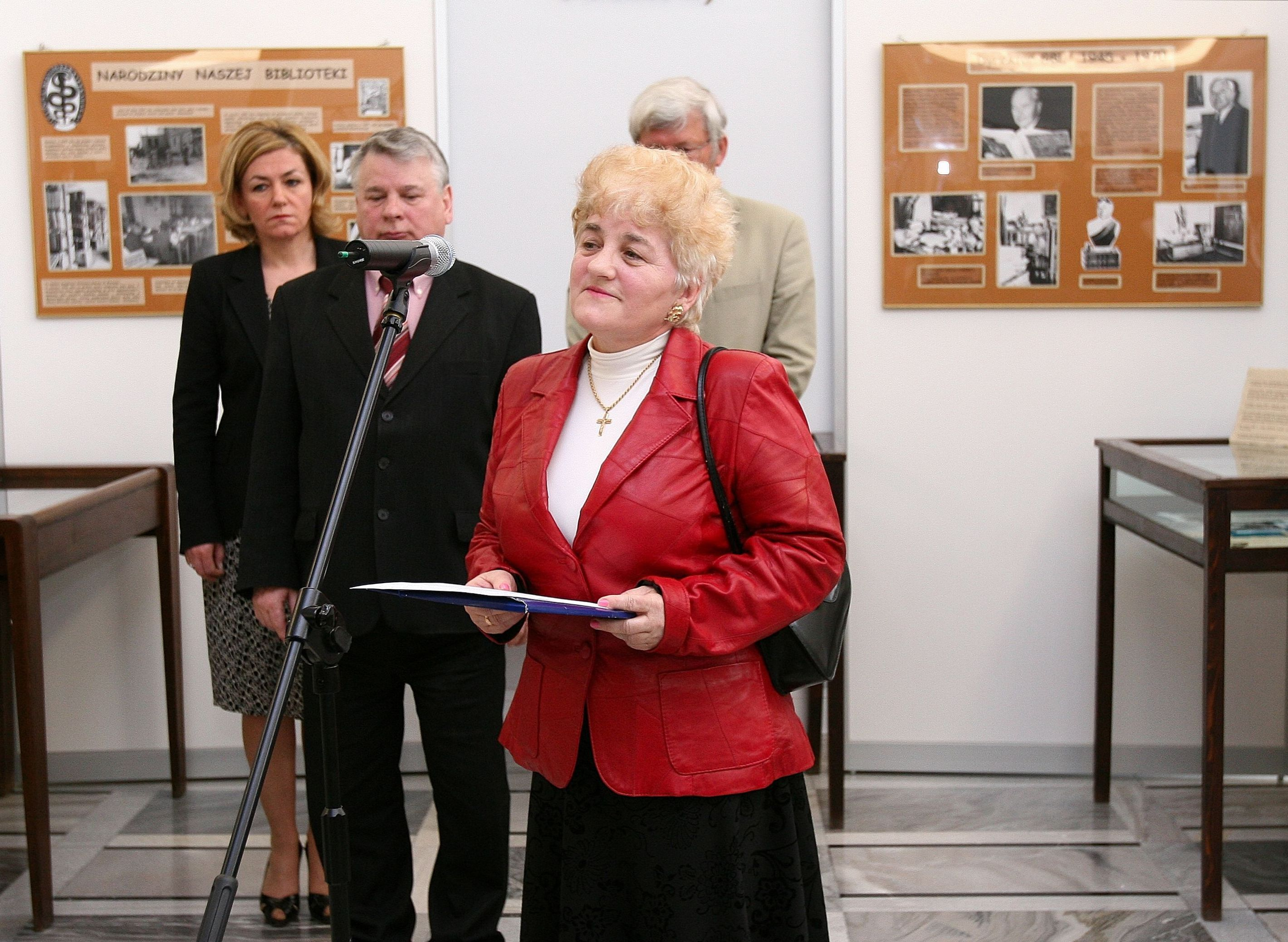 Senator Janina Fetlińska during an opening of the exhibition "Stanisław Konopka (1896-1982). A lifetime's work" in the Polish Senate